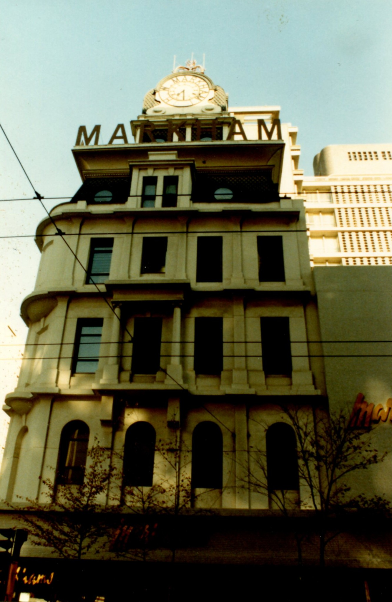 The Markham's building in the city of Johannesburg cnr President & Eloff str. This is part of the collaboration between the Joburgpedia project and the Johannesburg Heritage Foundation.